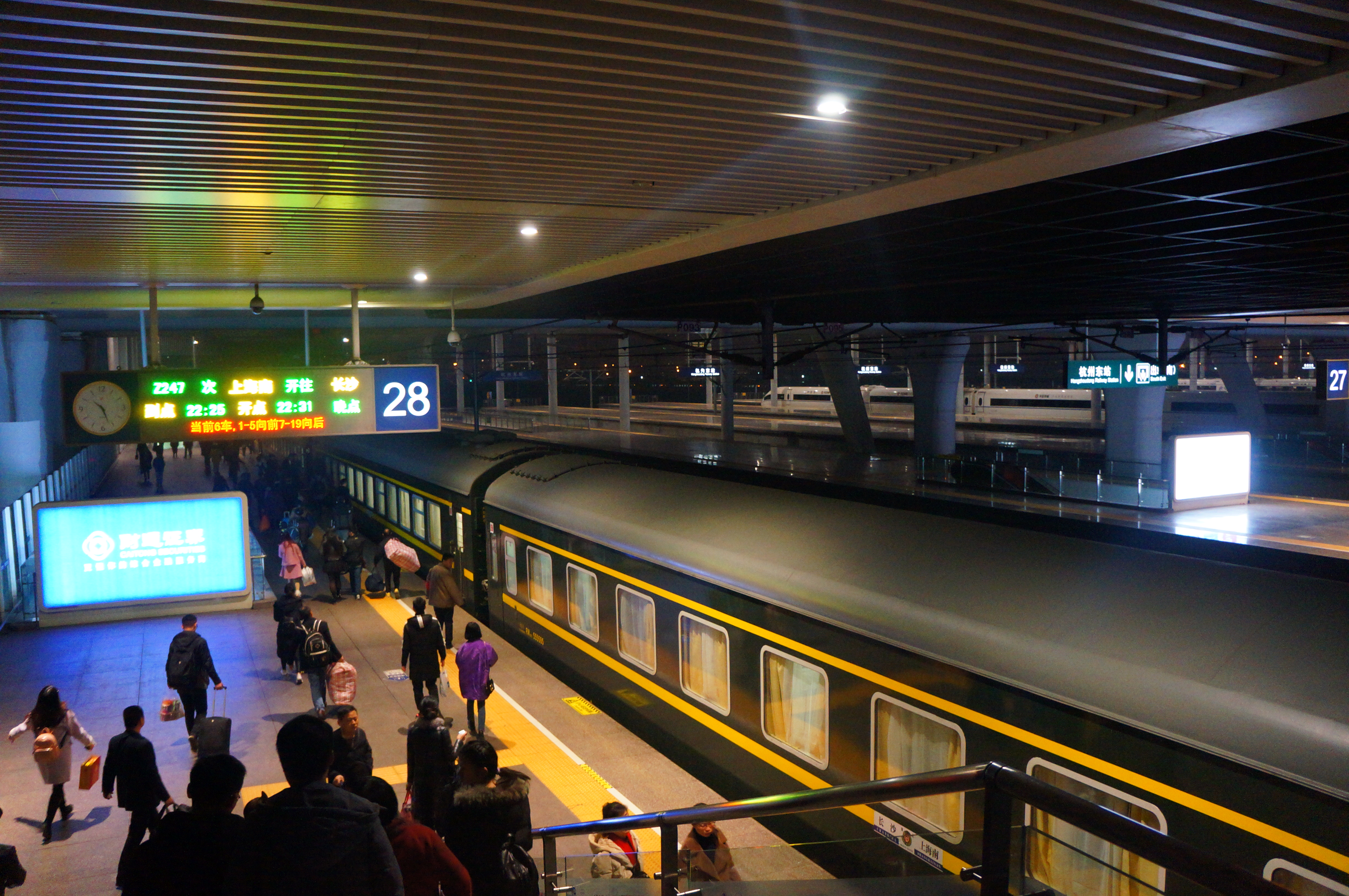 201712 Z247 at Hangzhoudong Station